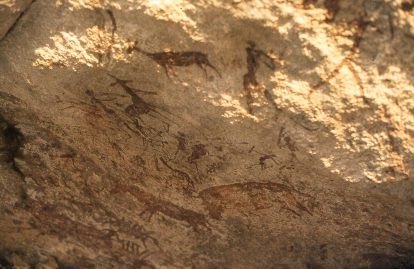 stoneage paintings of the San, found near Murewa (Zimbabwe)